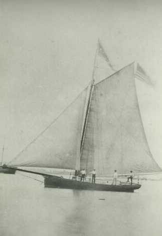 The sloop Humming Bird circa 1880